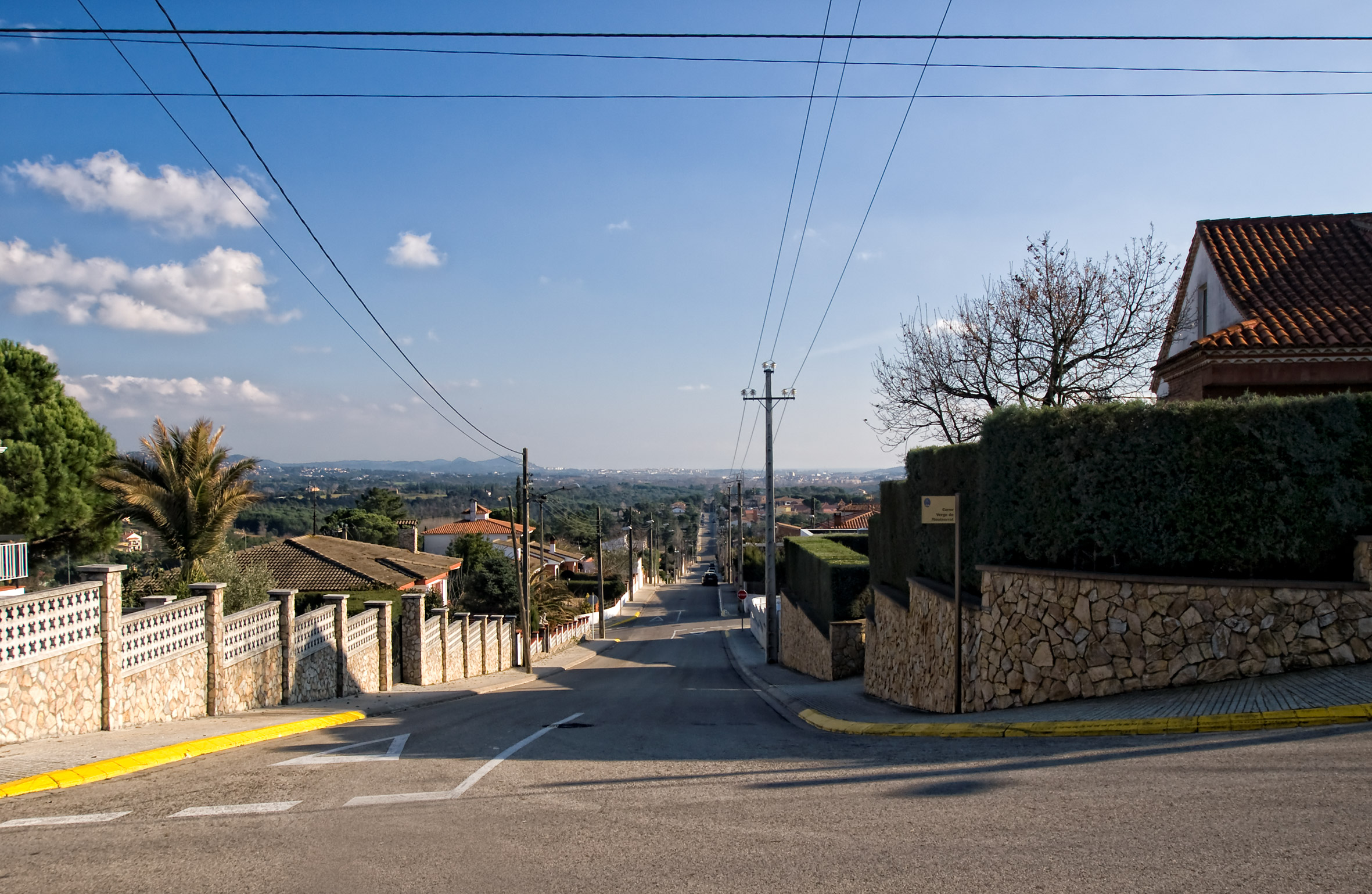 Street at Fogars de la Selva (Catalonia, Spain)